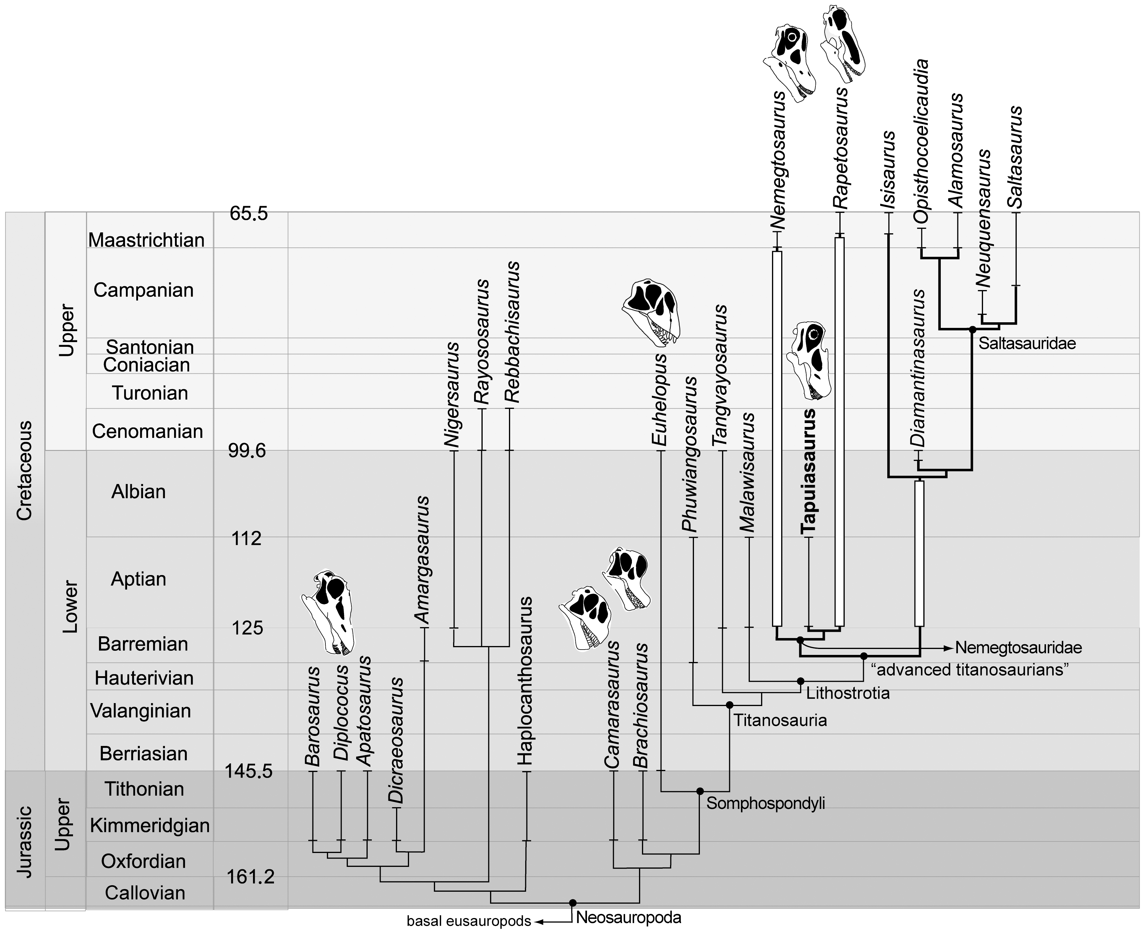 Original caption: "Calibrated phylogeny of Neosauropoda. Summarized strict consensus tree showing the relationships among neosauropod dinosaurs and the phylogenetic position of Tapuiasaurus macedoi gen. n. sp. n. The support values (Bremer/Bootstrap) for the nodes labelled in the figure are: Neosauropoda (1/-), Somphospondyli (2/68), Titanosauria (2/58), Lithostrotia (3/68), “advanced titanosaurians” (3/65), Nemegtosauridae (1/-), Saltasauridae (1/-). See Figure S4 for a complete strict consensus tree including all sauropod terminal taxa used in the analysis. Age of first appearance for taxa used in the calibrated phylogeny are given in Text S4."